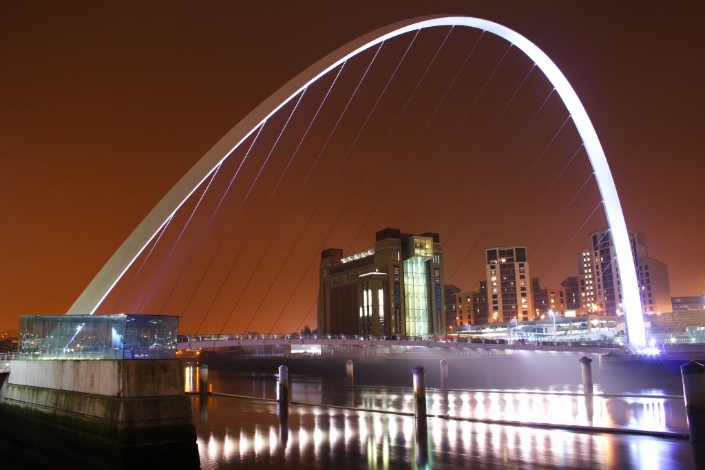 Photo of the Millennium Bridge taken from the Newcastle side on 31/01/06. Canon 350D 18mm 20 seconds @ F8 using a mini-tripod balanced on a bin. Ewan Panter (ewan at ewanpanter dot co dot uk).